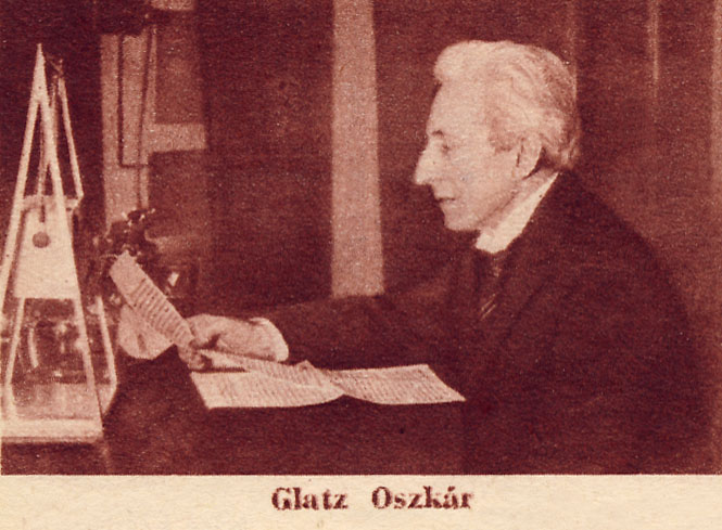 Oszkár Glatz Hungarian painter gives a lecture in the Hungarian Radio